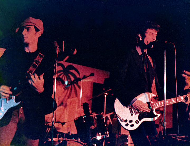 Louis X. Erlanger (left) and Willy DeVille (right) performing with the band Mink DeVille at the El Mocambo, 1977. [foto by P.B.Toman]